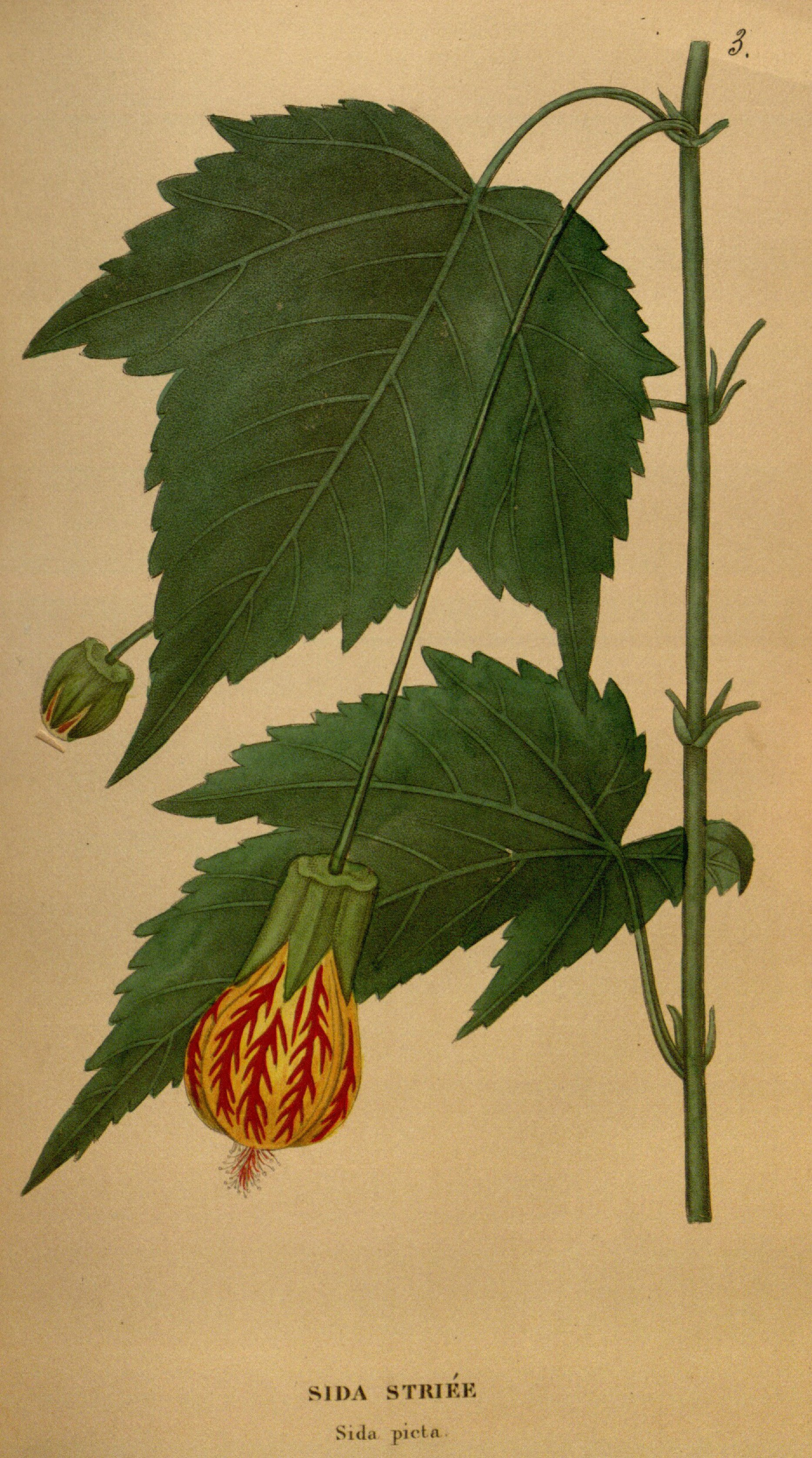 Abutilon pictum, as Sida picta